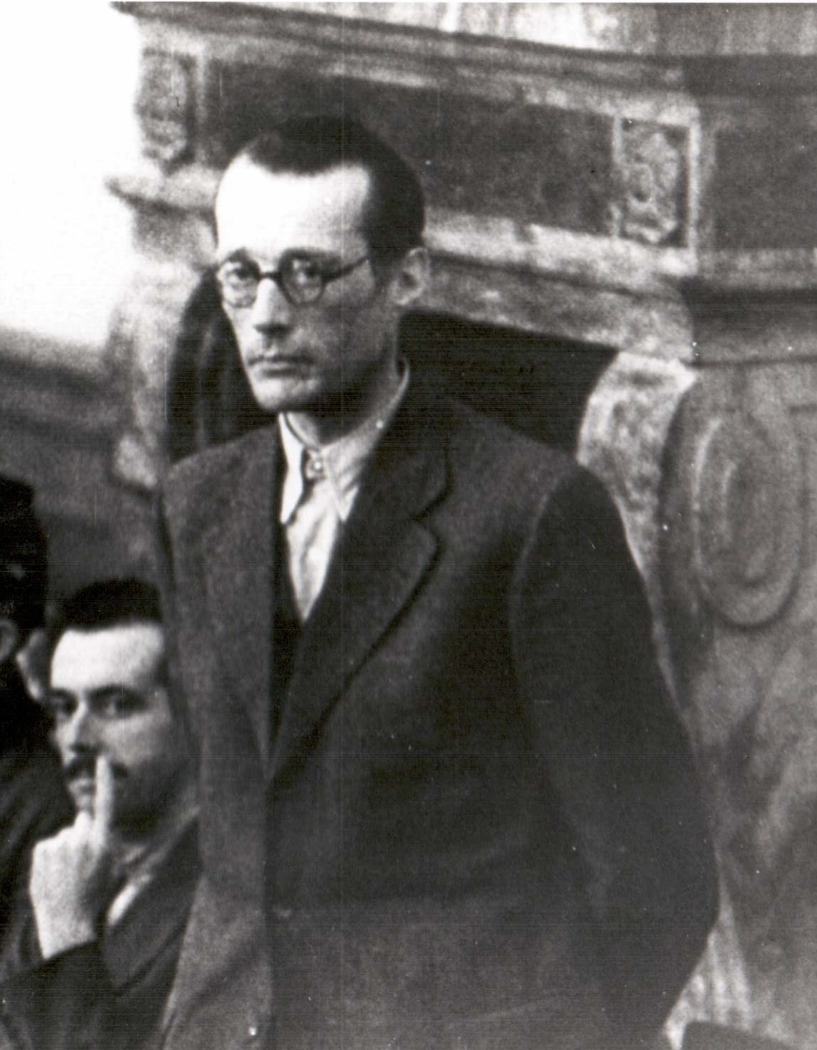 Ulrich-Wilhelm Graf von Schwerin von Schwanenfeld at the age of 41 years (Aug. 1944)